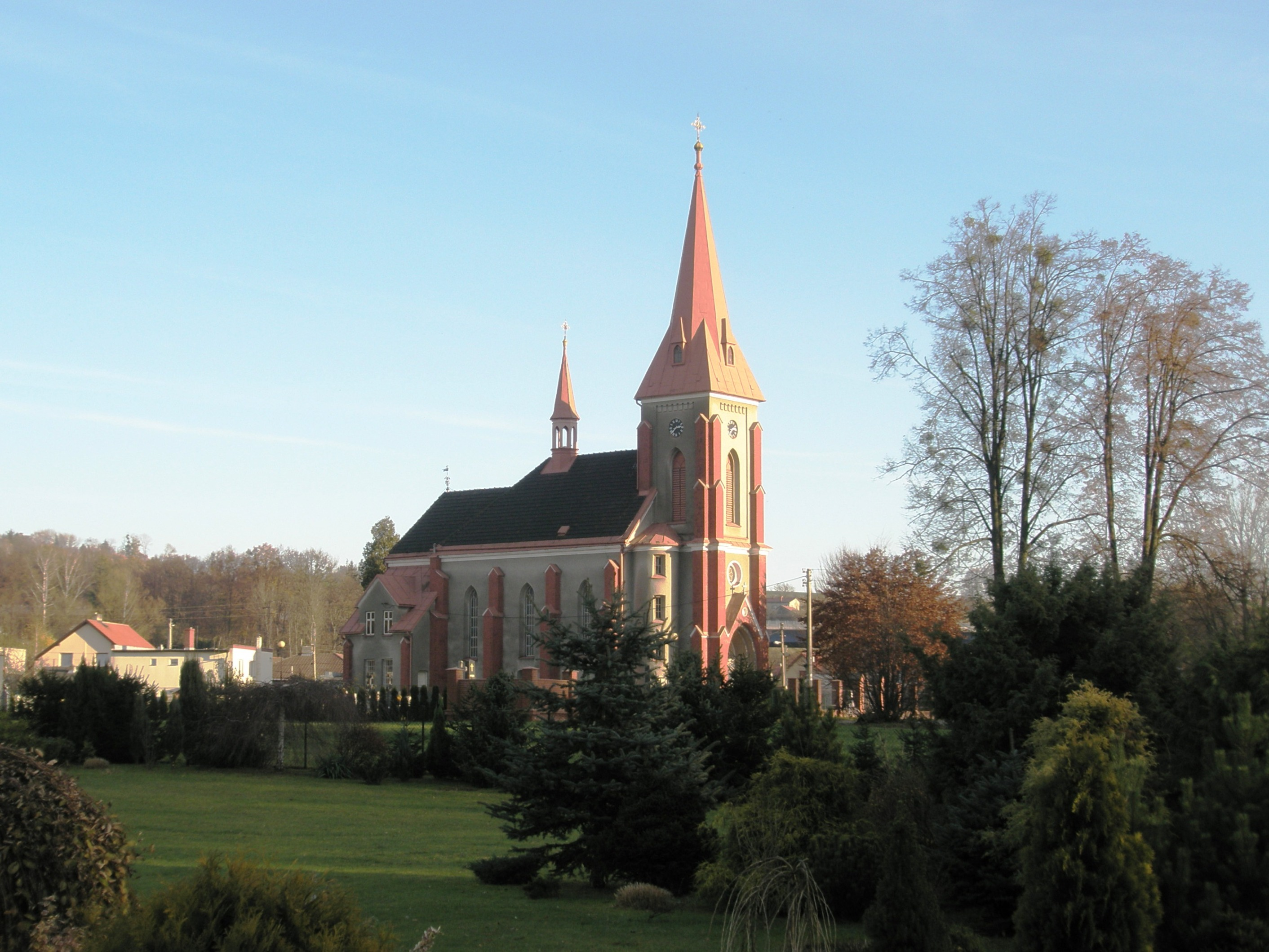 St. Bartholomew Roman Catholic church in Třanovice (built 1902-1904)